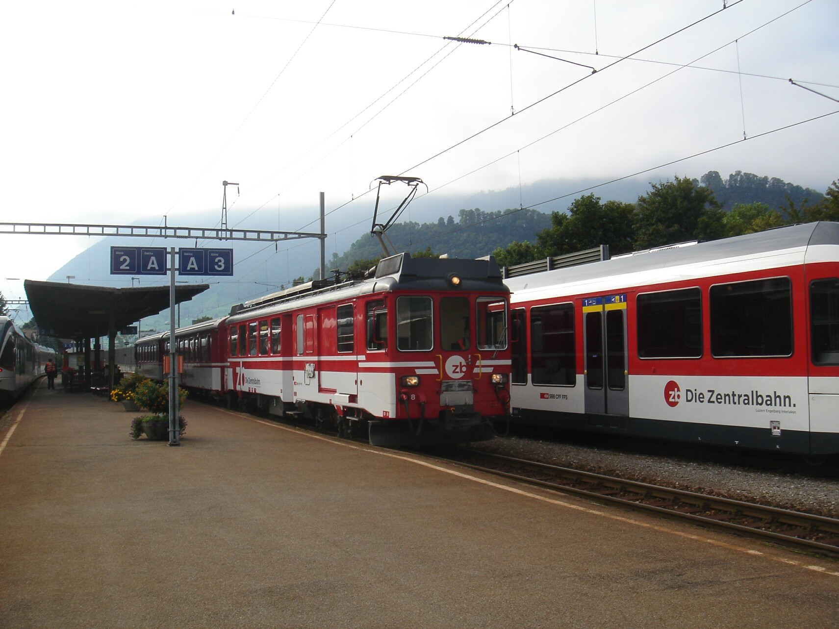 Last delivered BDeh 4/4 8 (BDeh 140 008 of 1980) of Zentralbahn in Stansstad station